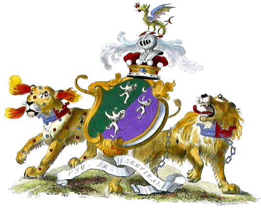 Source: Catton's English Peerage, 1790